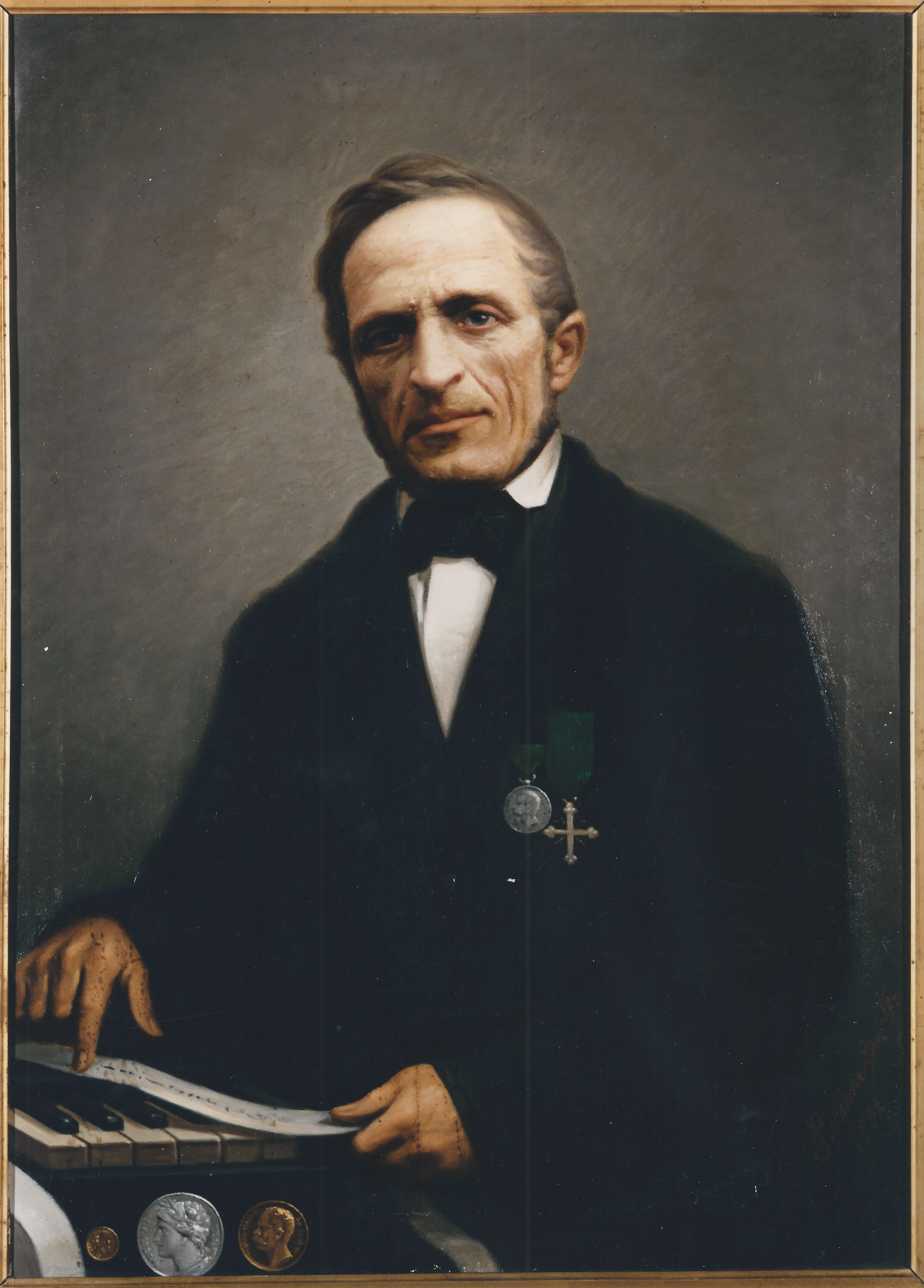 Photo of the original 1892 painting by Giovanni Stornone depicting the prof. Antonio Michela Zucco, inventor of the Michela stenography system.